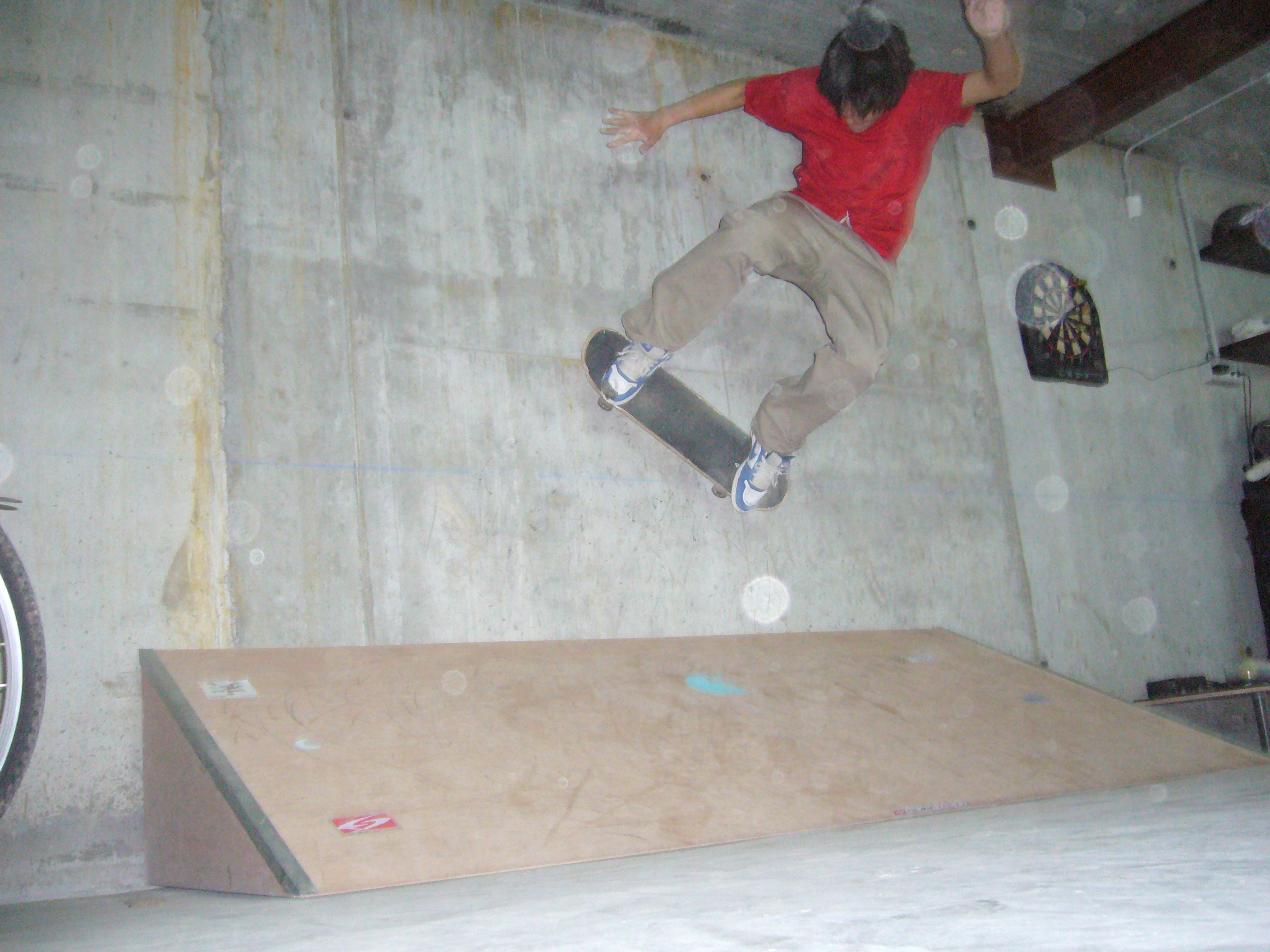 wallride